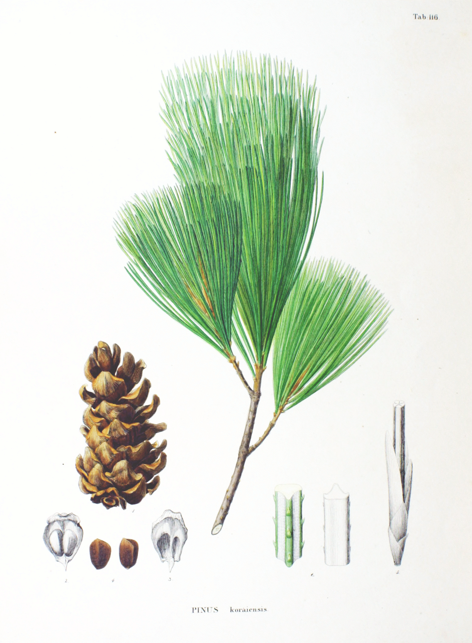 Pinus koraiensis foliage (right), and Pinus parviflora cone and seeds (left); plate from book